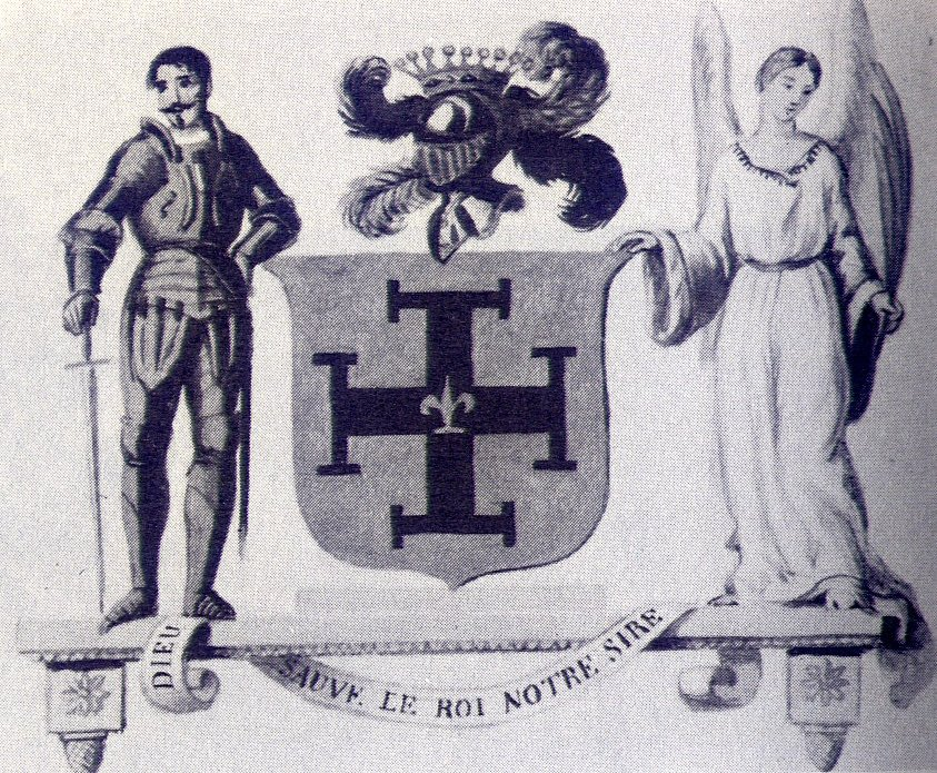 Armoiries imaginaires des MORTSAUF, dessinées et peintes par Ida du Chasteller épouse Visart de Bocarmé, pour la Comédie Humaine de Balzac. Conservée dans la collection Lovenjoul.